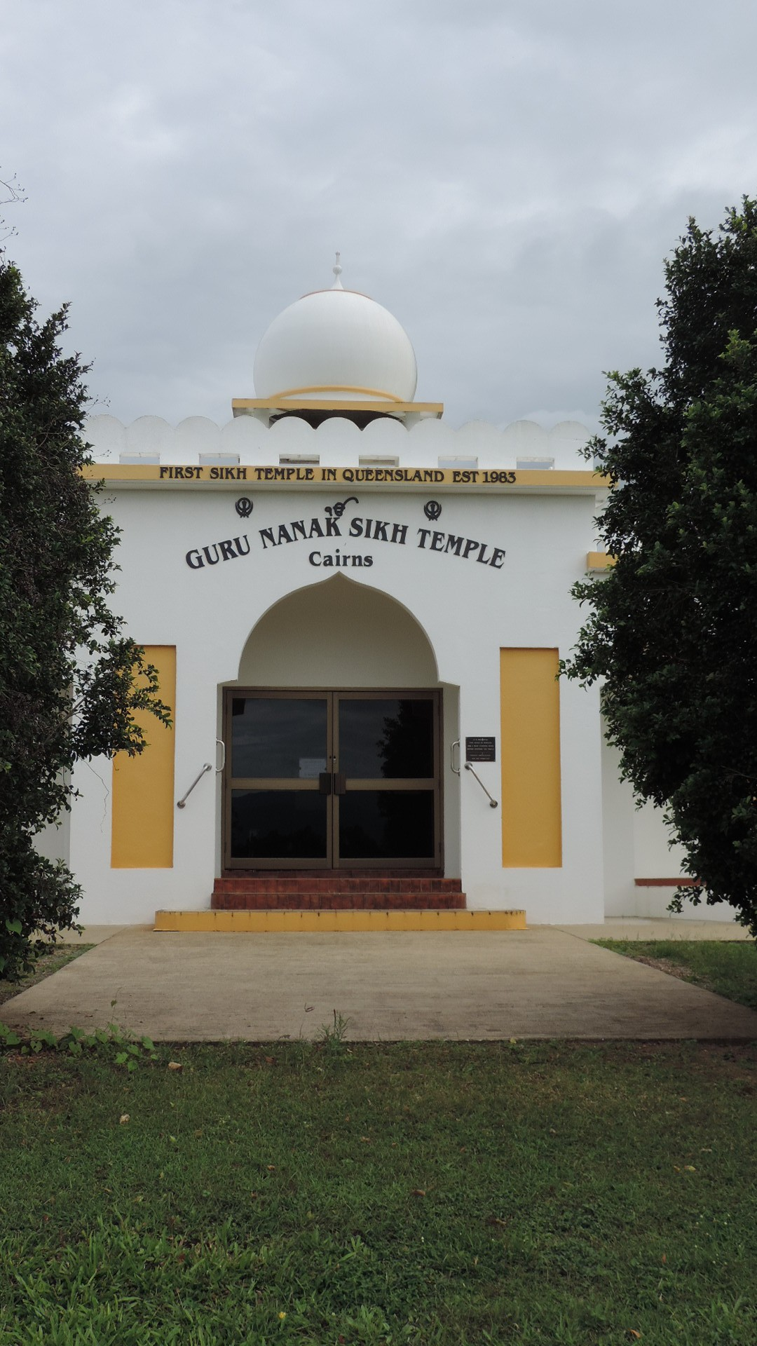 Sihk temple, Bruce Highway, Mount Peter, Cairns, 2016